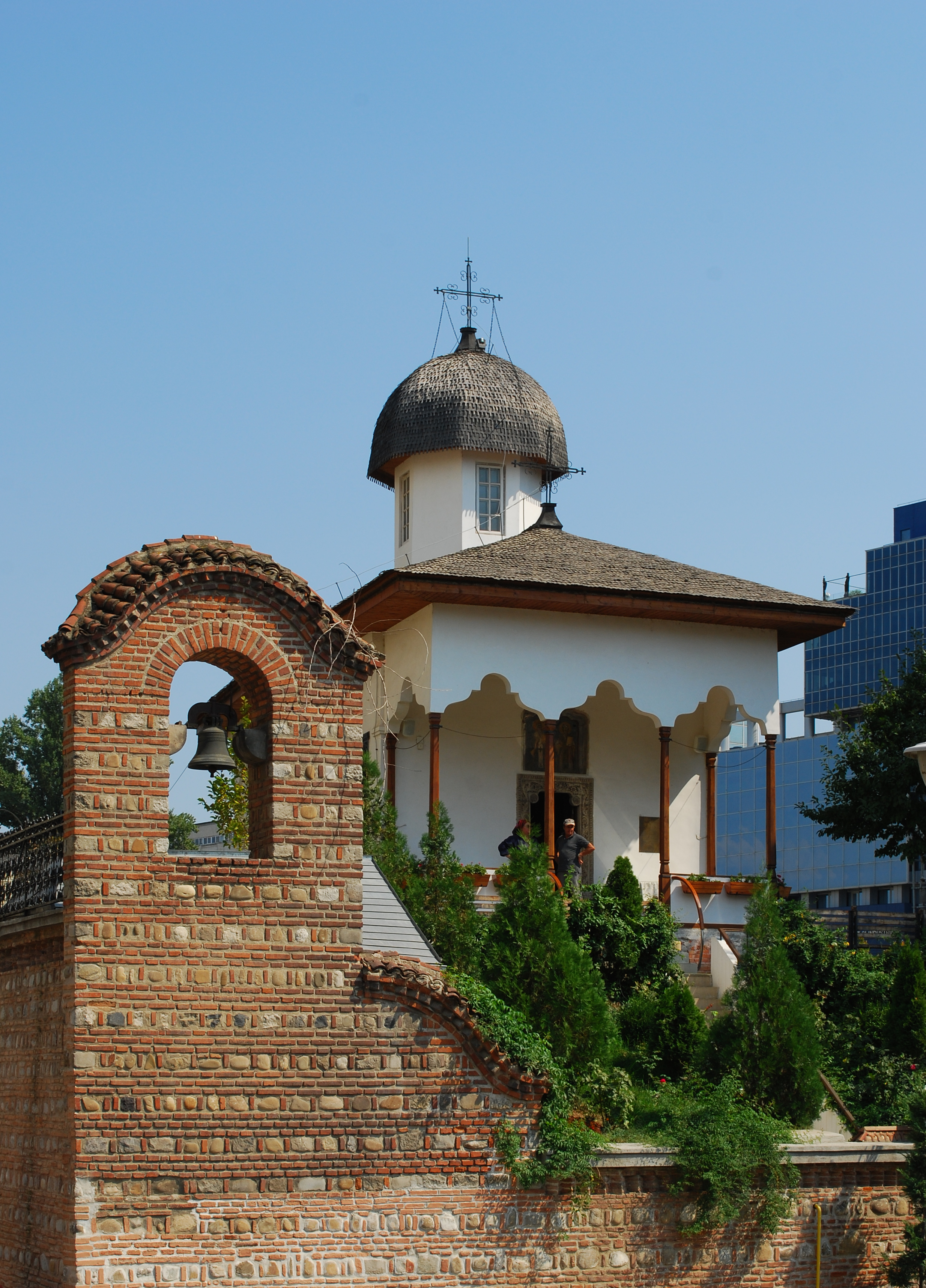 St. Athanasius and St. Cyril church church in Bucharest, known as the „Bucur the Shepherd” churchRomână: Biserica „Sf. Atanasie şi Chiril" - Bucur din Bucureşti, România